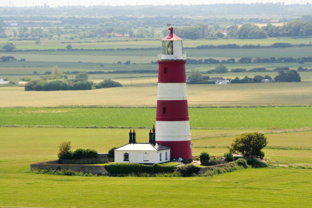 Happisburgh lighthouse, Happisburgh, Norfolk, UK. Photographed from the top of St Mary's Church tower